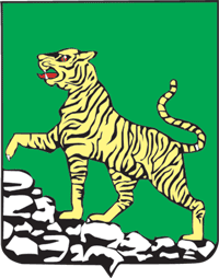 Vladivostok (Primorsky krai), coat of arms (2001)